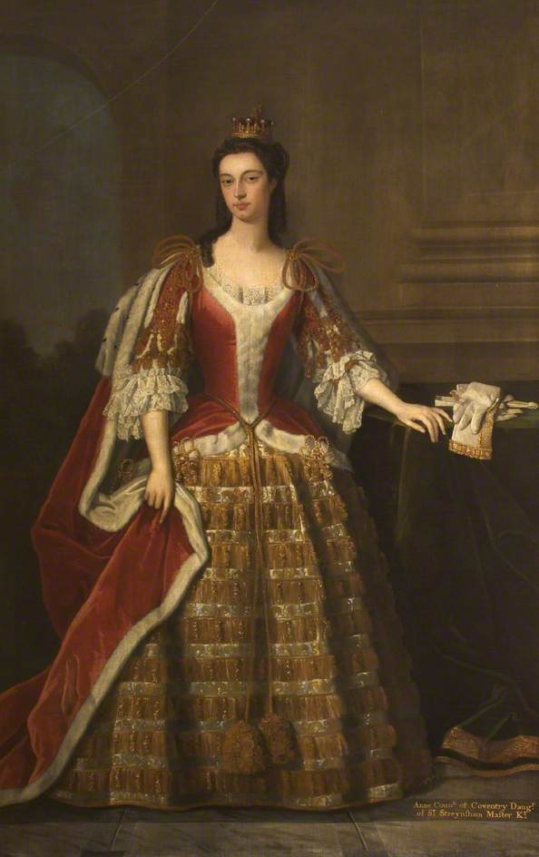 Anne Masters (1673–1763), 4th Countess of Coventry by Charles Jervas now in Stockport